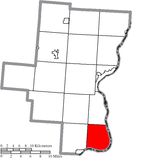 Map of the municipal and township boundaries of Gallia County, Ohio, United States, as of the 2000 census, with the location of Ohio Township highlighted. Township borders are shown only in unincorporated areas in order to differentiate incorporated and unincorporated areas more clearly.